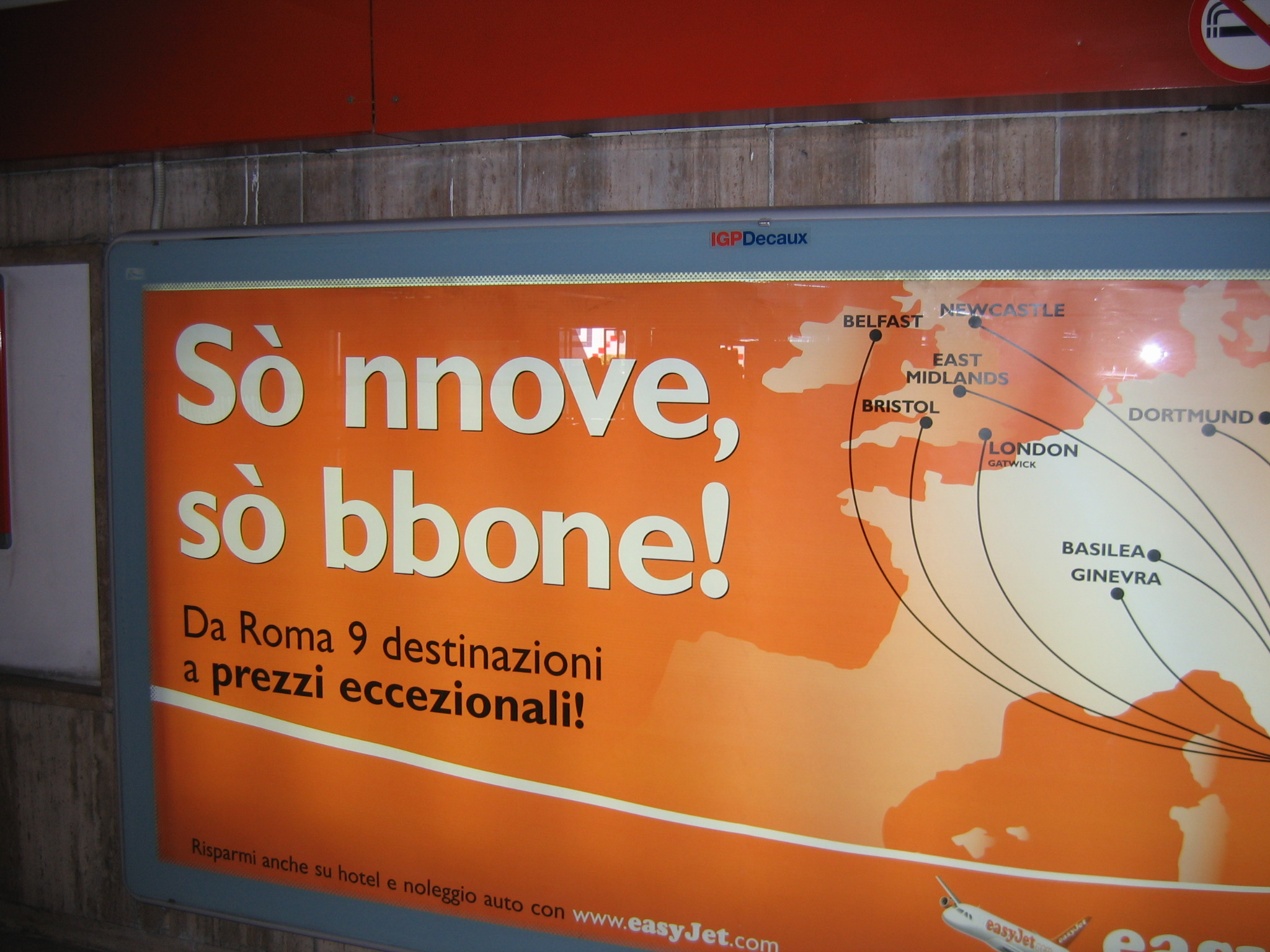 An advertisement in the Rome metro featuring a slogan in romanesco